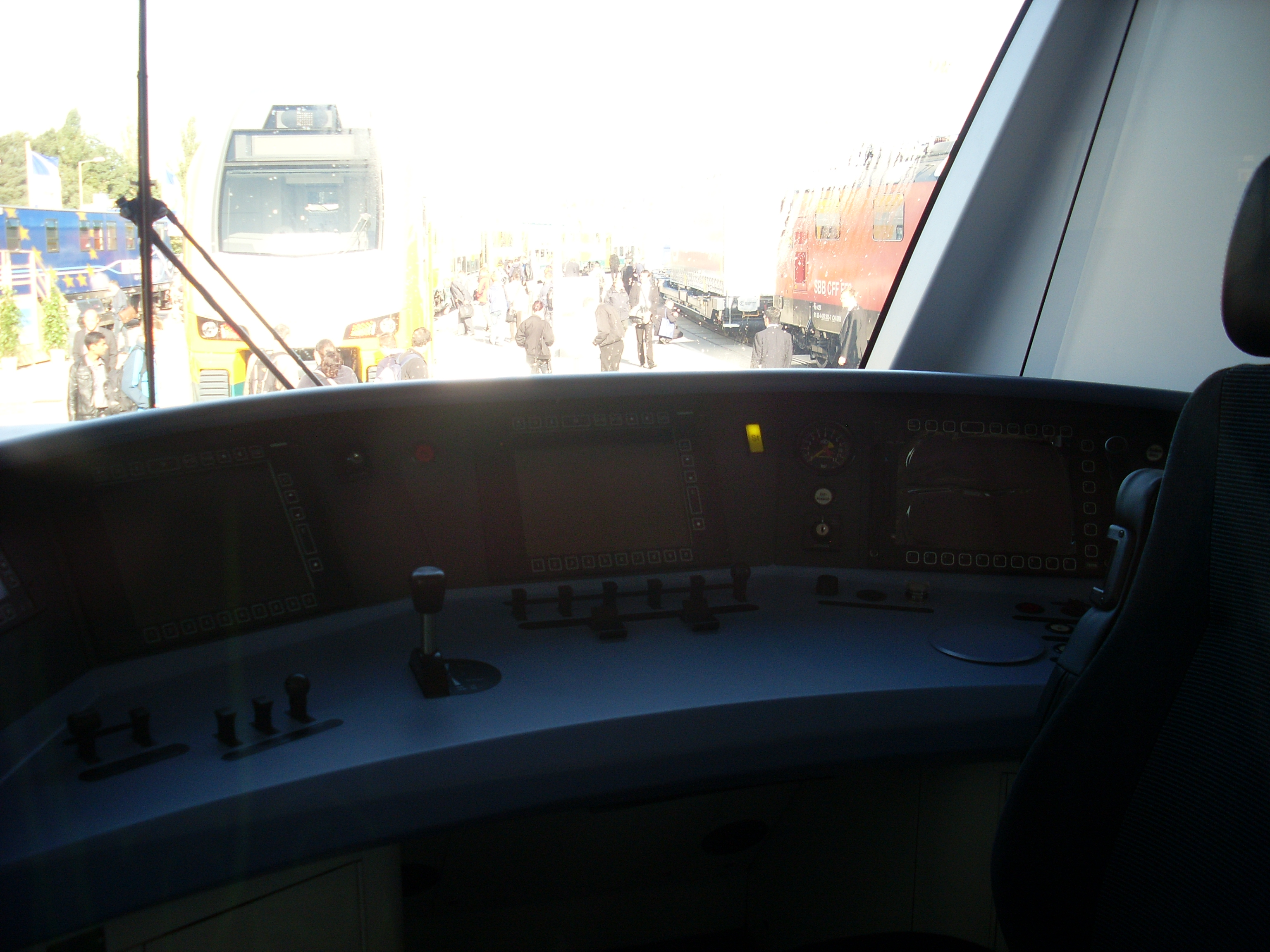 Cab of the Br 430 at InnoTrans 2012.